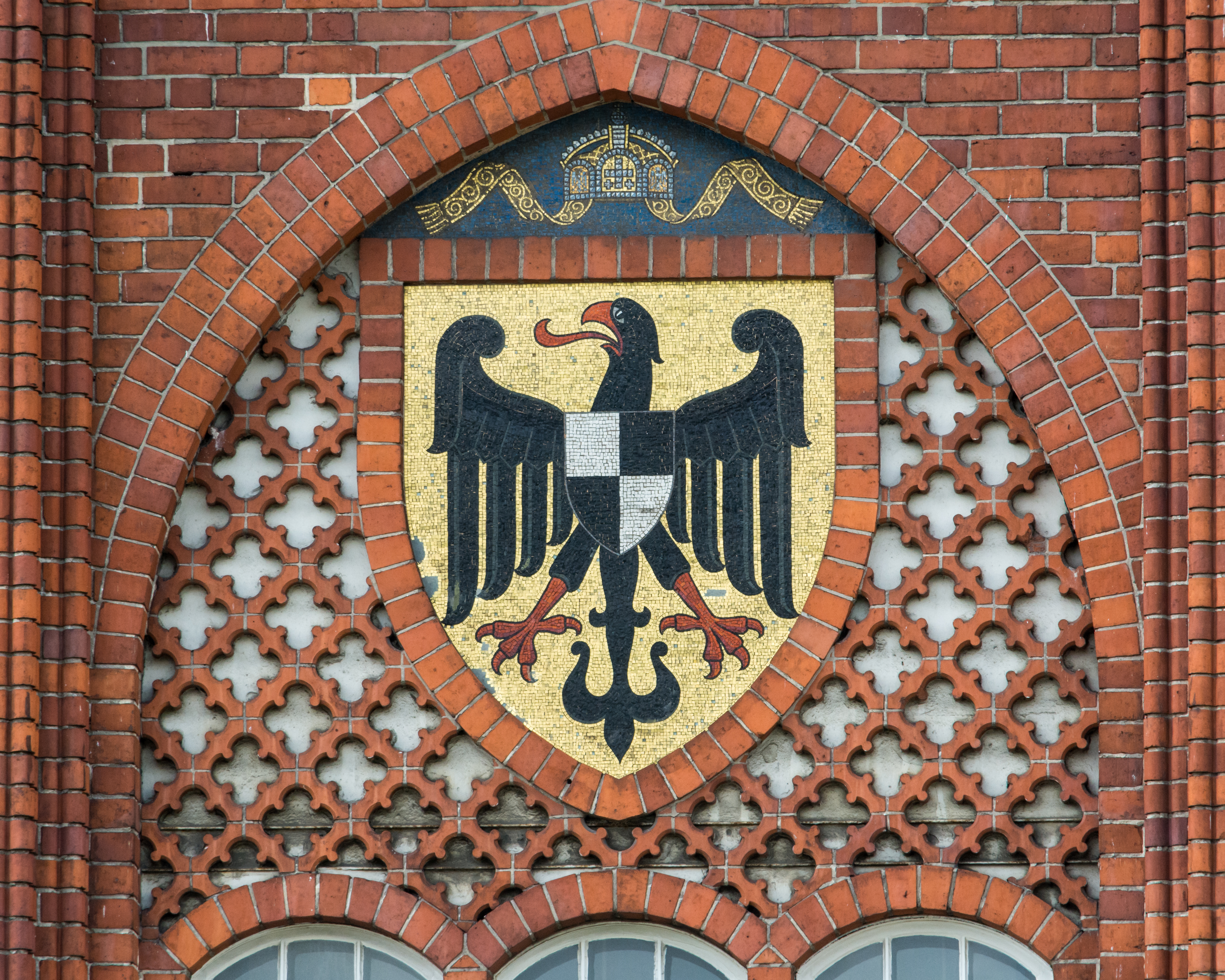 Mosaic of coat of arms at post office building SW 61 in Berlin. This is a photograph of an architectural monument.